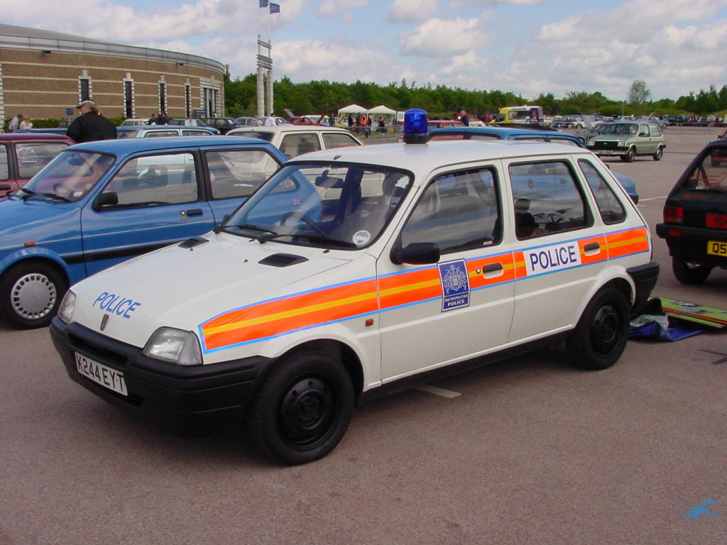 November 1992 Metropolitan Police Rover Metro 1.1. Metro 30th Anniversary at Heritage Motor Centre, Gaydon, UK